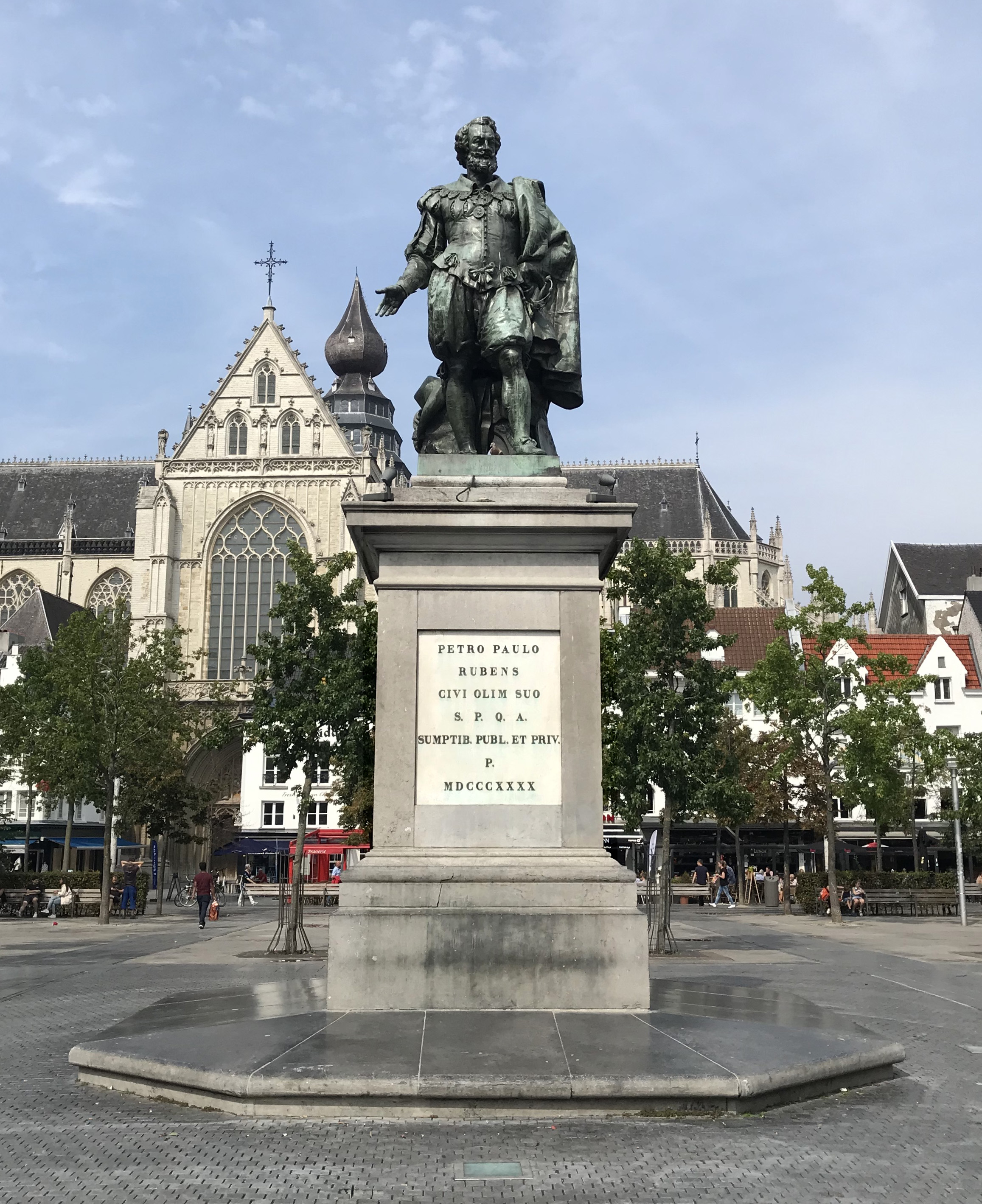 Peter Paul Rubens monument at Groenplaats in Antwerpen